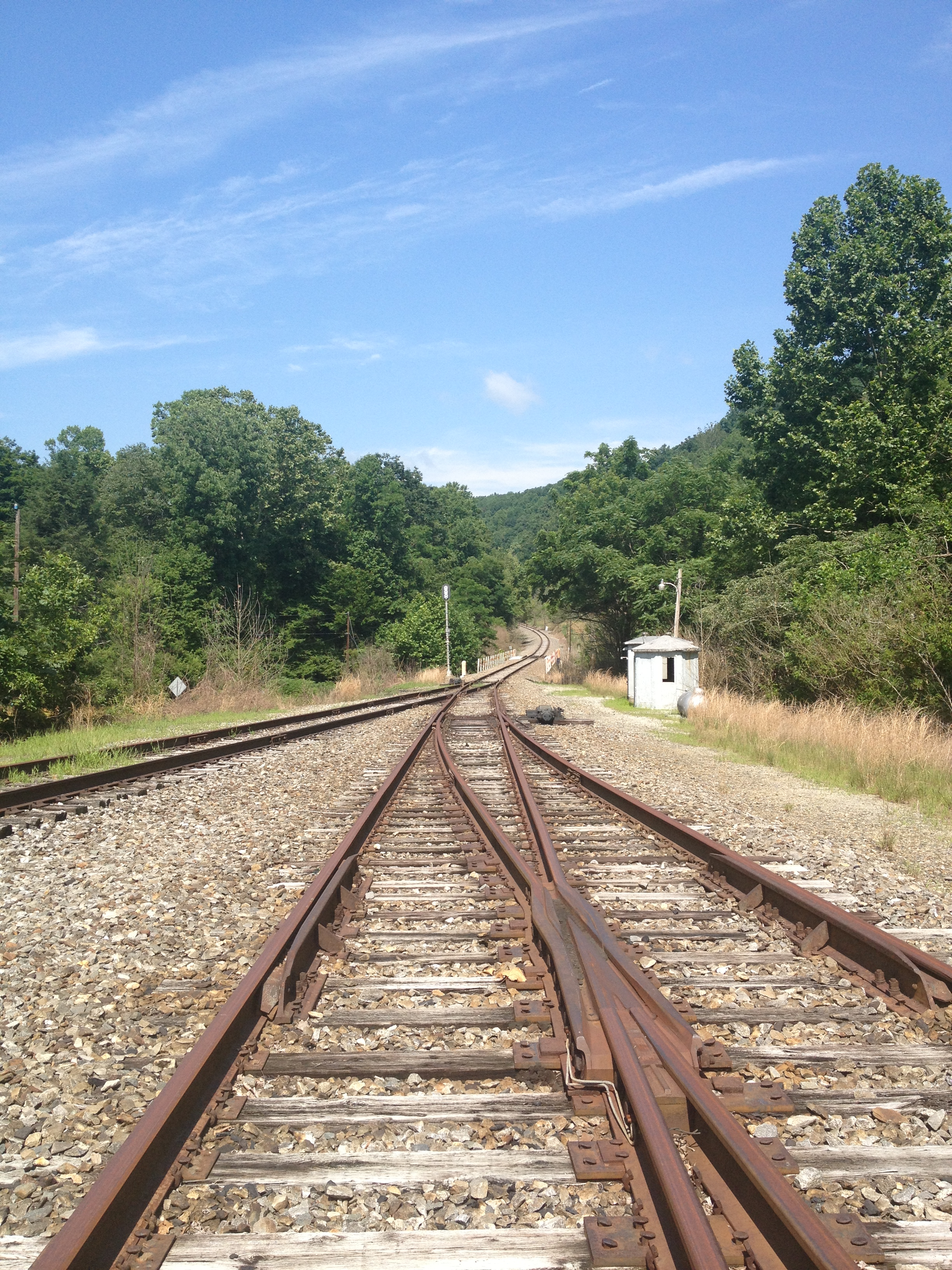 Saluda Grade at Pearsons Gate Summer 2013. Looking west, standing on mainline, runaway track is to left, helper lead to right. Ahead is bridge over North Pacolet River.